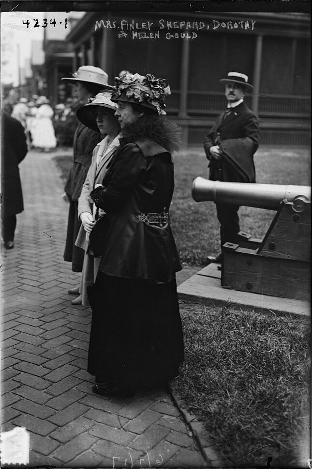 Bain News Service, publisher. Mrs. Finley Shepard, Dorothy & Helen Gould [between ca. 1915 and ca. 1920] 1 negative : glass ; 5 x 7 in. or smaller. Notes: Title from unverified data provided by the Bain News Service on the negatives or caption cards. Forms part of: George Grantham Bain Collection (Library of Congress). Format: Glass negatives. Repository: Library of Congress, Prints and Photographs Division, Washington, D.C. 20540 USA, General information about the Bain Collection is available at Higher resolution image is available (Persistent URL): Call Number: LC-B2- 4234-1